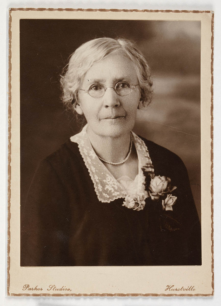 No. 78. Suzannah M. E. Franklin